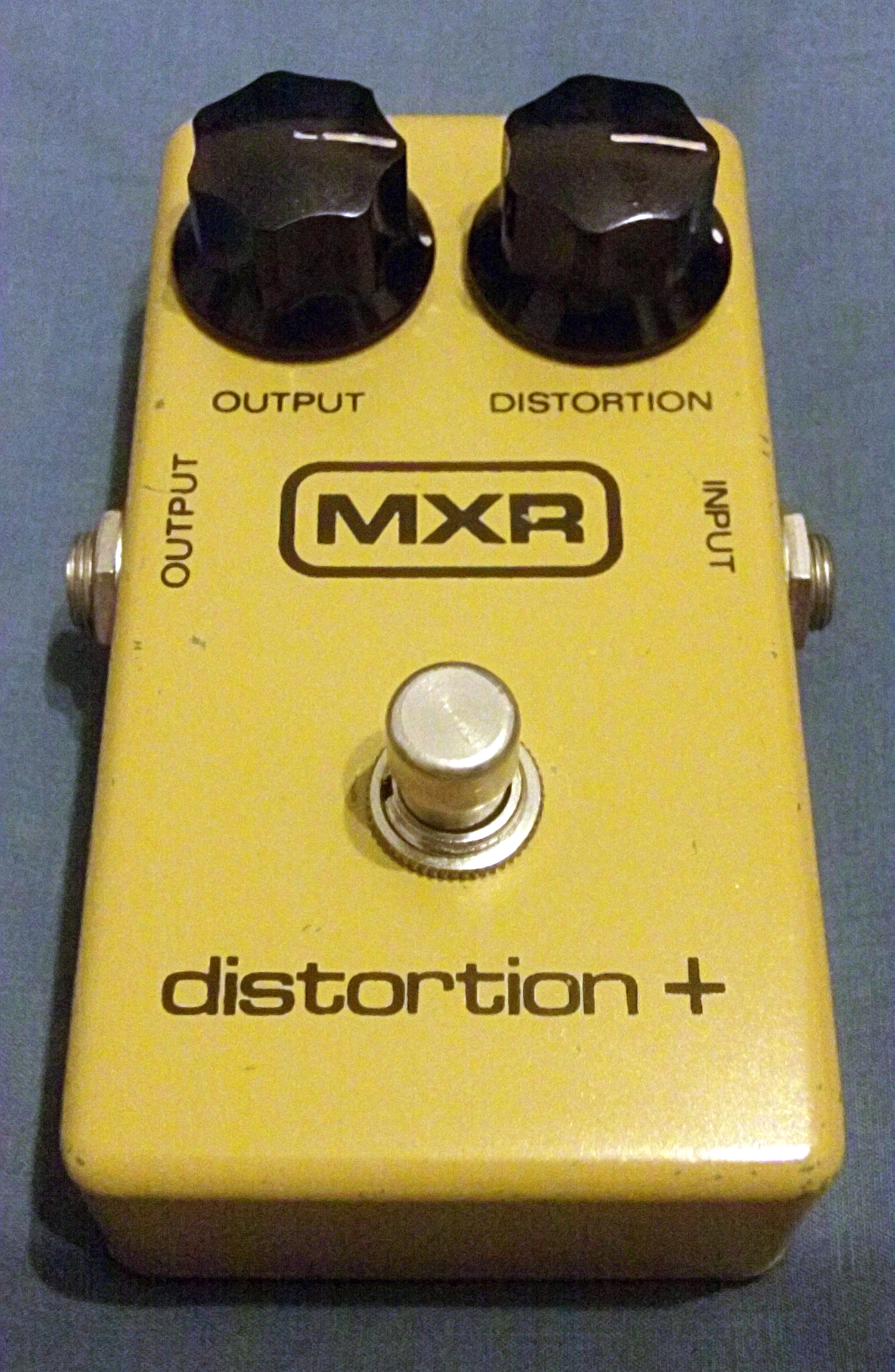 An original MXR Innovations distortion plus pedal from 1979, block logo, without LED and battery-only operation (no AC Adapter).